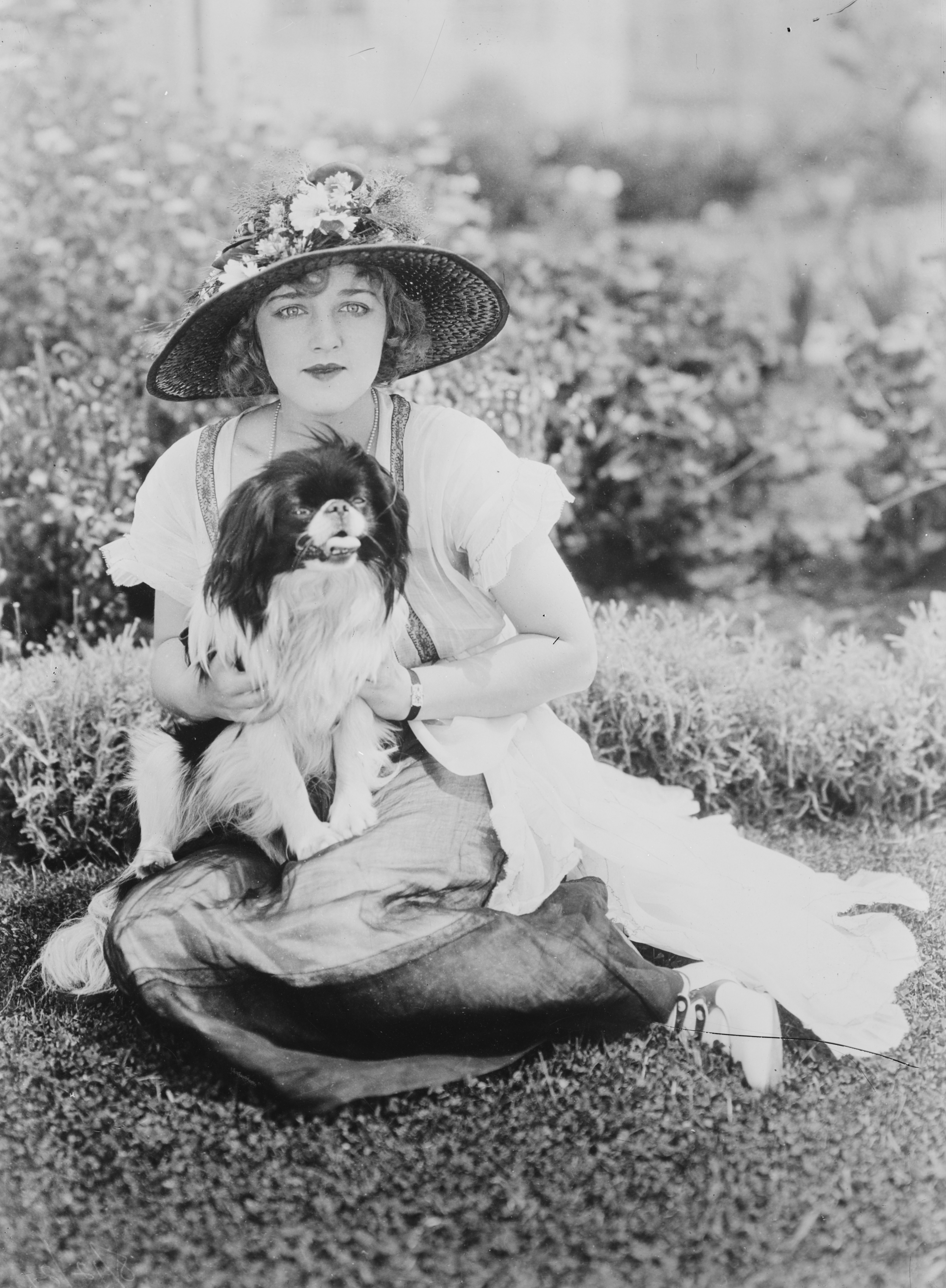 Actress Mildred Davis with pet dog